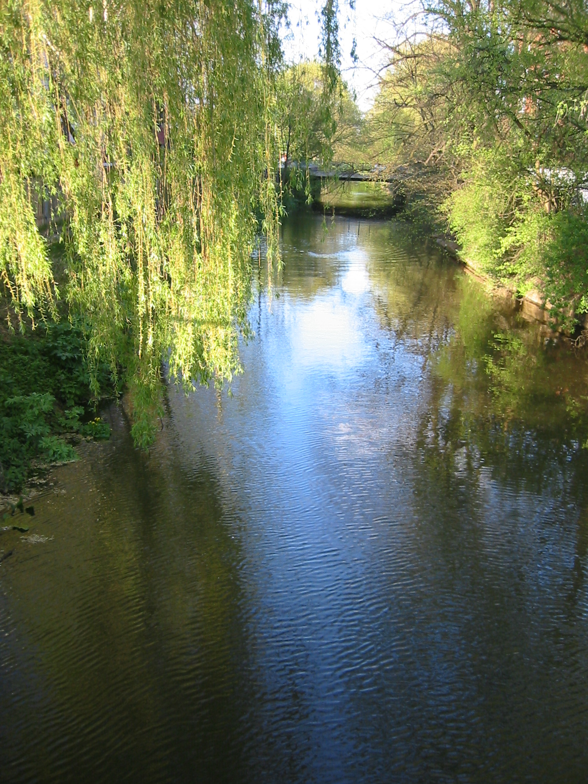 Pinnau river in Germany